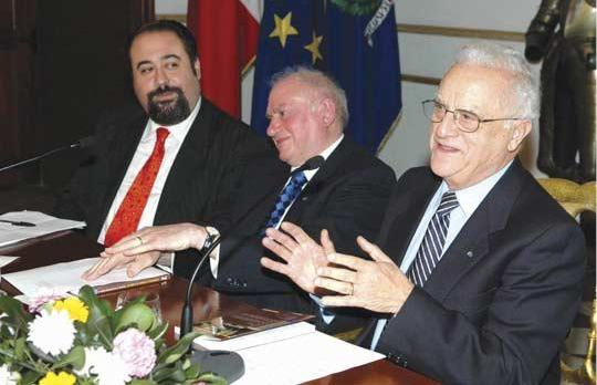 President of Malta Edward Fenech Adami, Former Chief Justice Giuseppe Mifsud Bonnici, and Dr Mark A. Sammut.